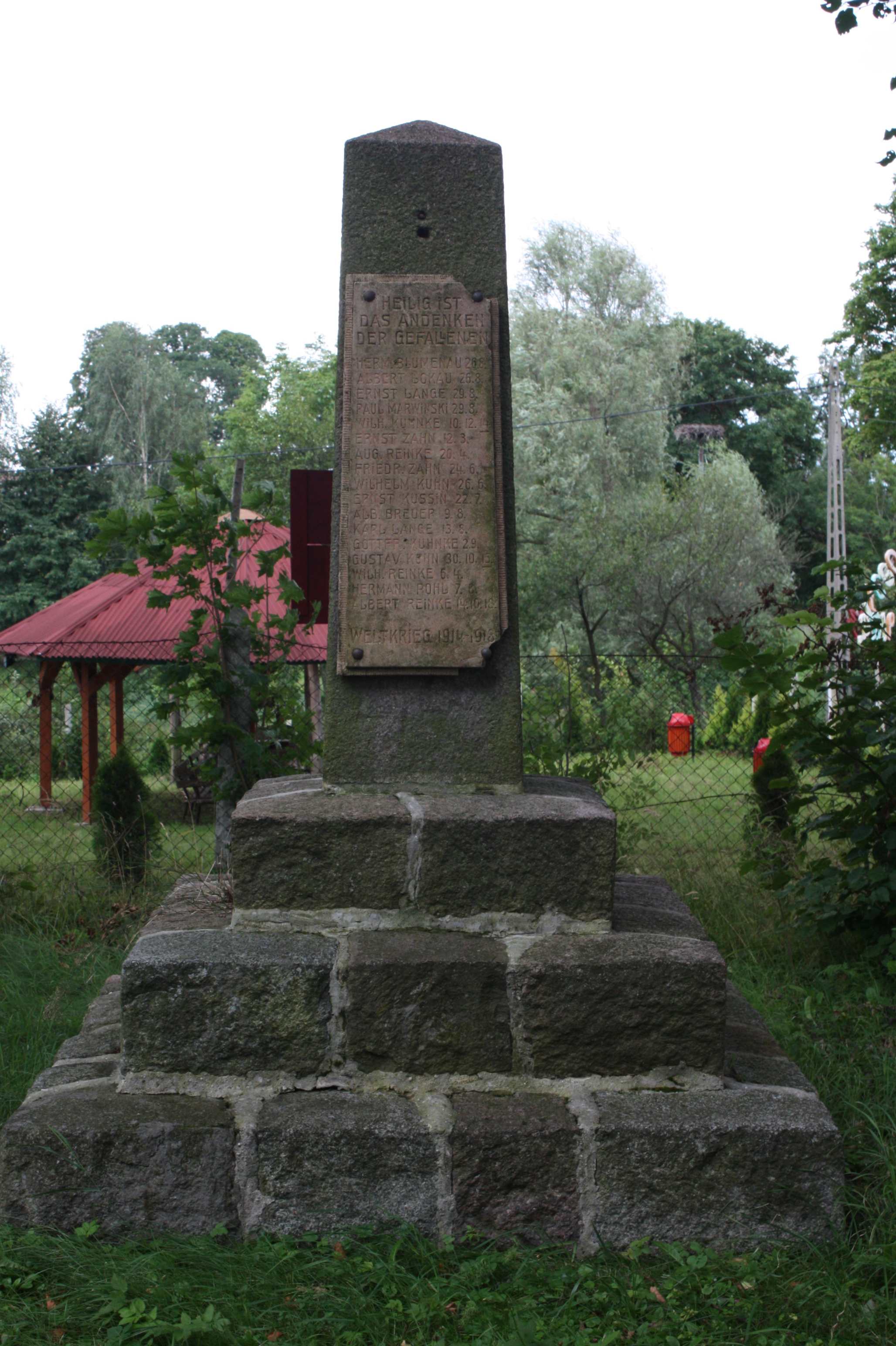 This photo of Warmian-Masurian Voivodeship was taken during Wikiexpedition 2012 set up by Wikimedia Polska Association. You can see all photographs in category Wikiekspedycja 2012. The making of this document was supported by Wikimedia Polska.